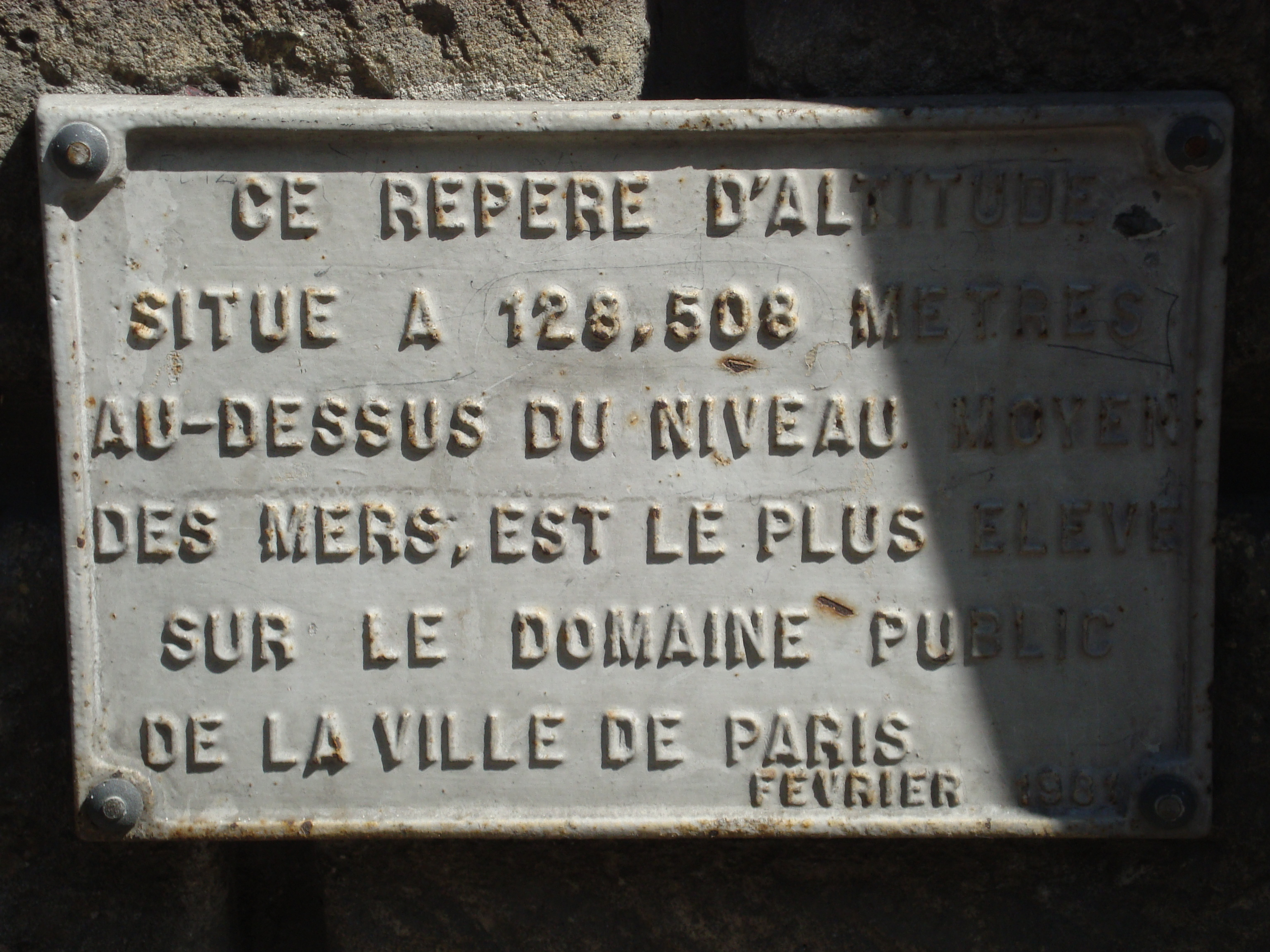 Mark at rue du Télégraphe in Paris indicating the official summit point of the city